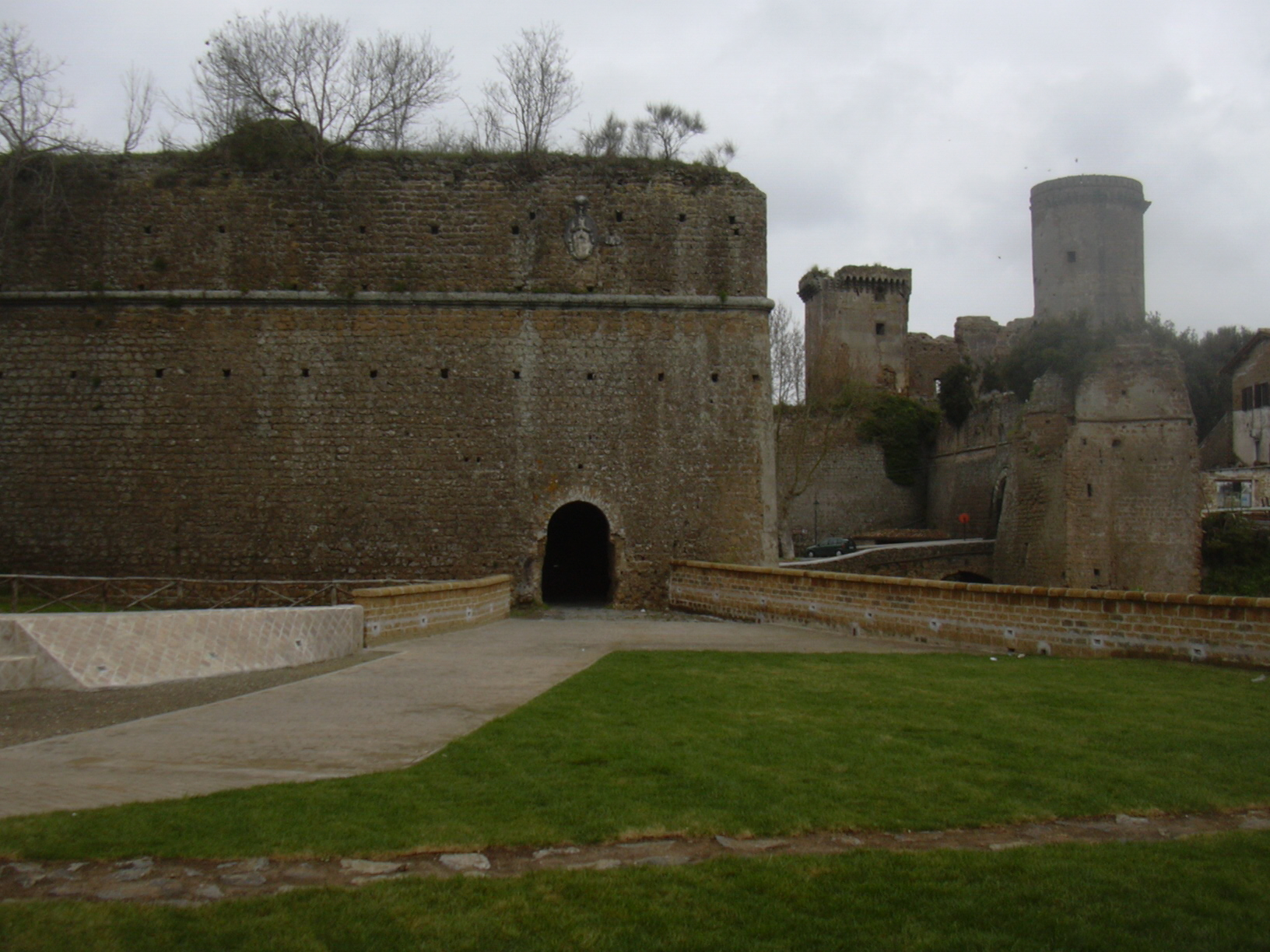 Nepi (Latium), Borgia castle and Farnese fortification